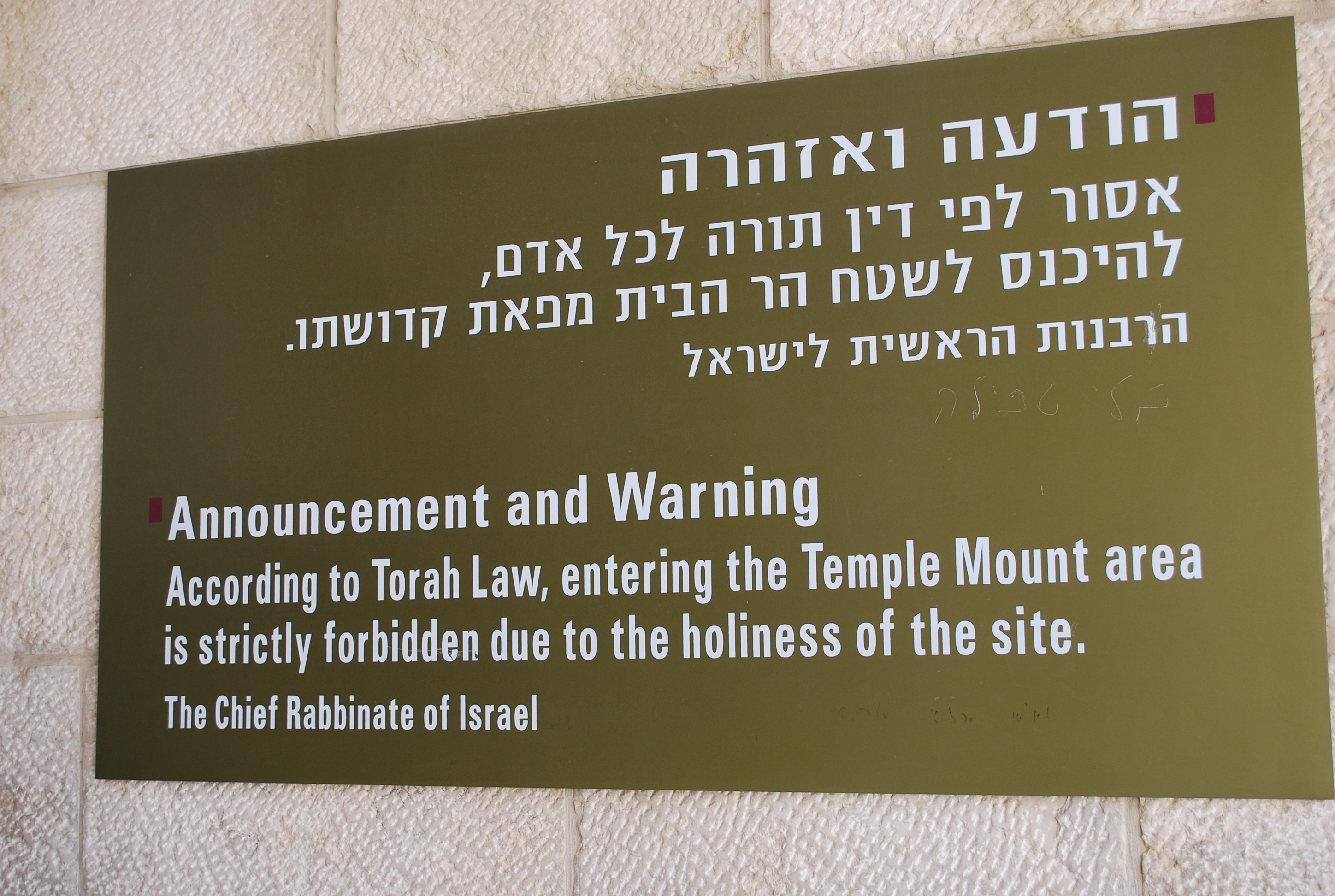 Apparently, the Chief Rabbi forbids us to go to Temple Mount. Ooops. Jerusalem